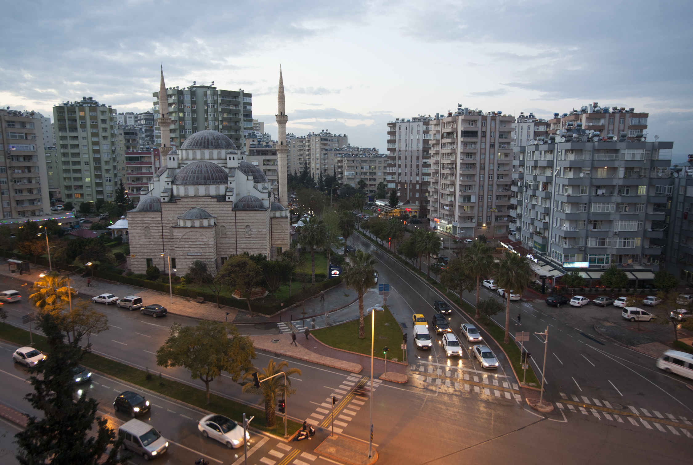 An evening view of Turgut Özal Blvd. in Çukurova, Adana - Turkey.